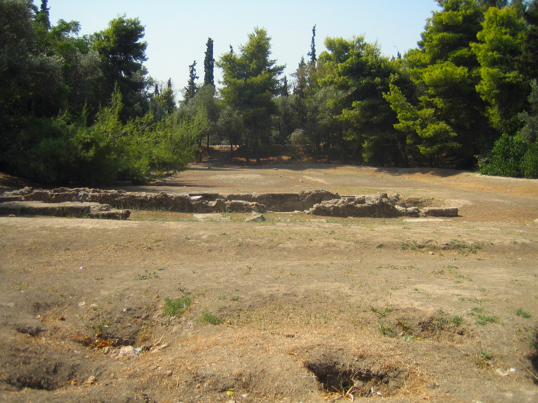 Plato's Academy Archaeological Site in Akadimia Platonos subdivision of Athens, Greece.